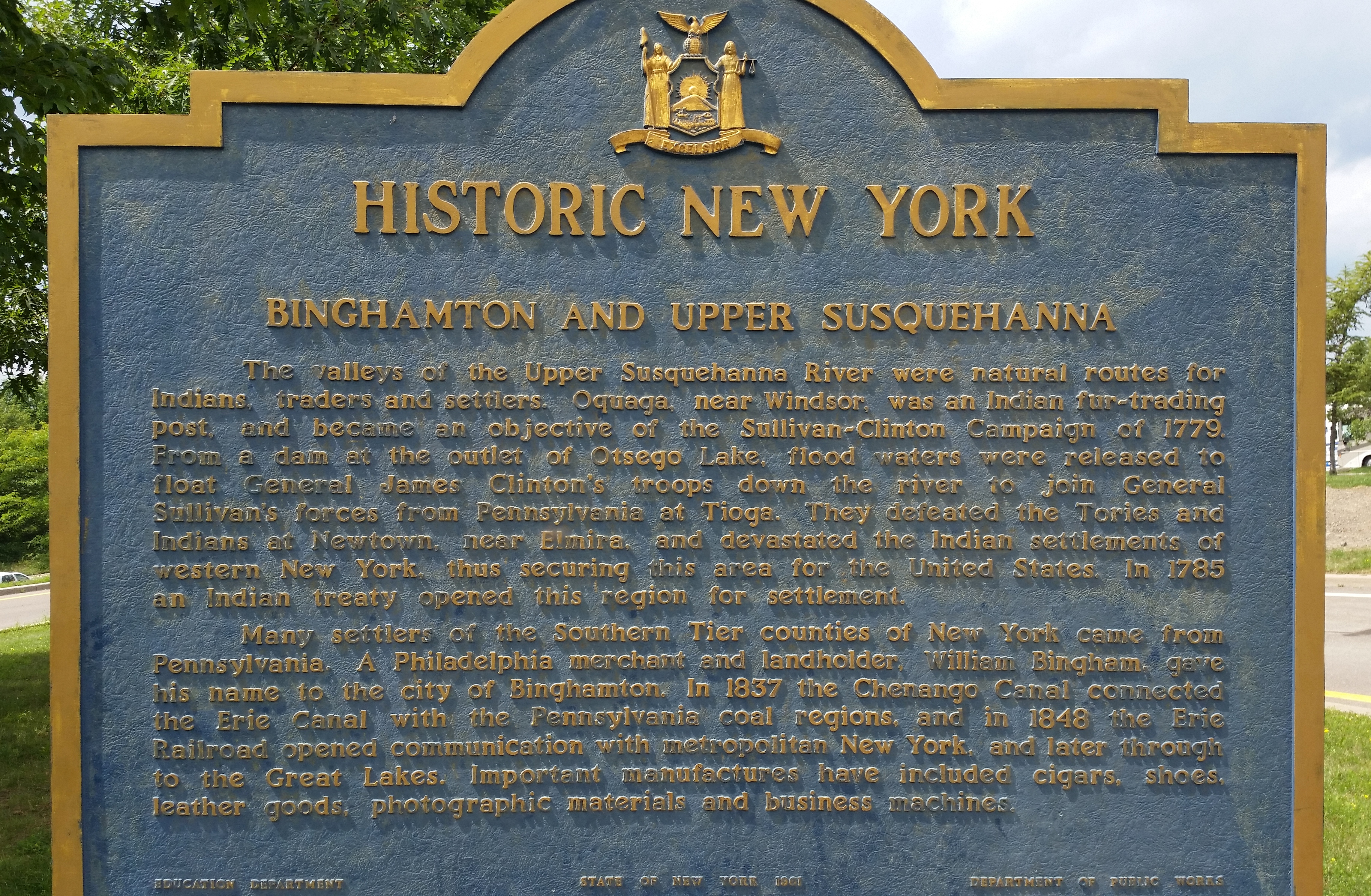 Historic marker, Taste of New York Welcome Center, Kirkwood, NY